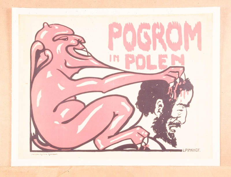 Description: Poster alerting people to a recent Pogrom in Poland Artist: L. Pinkhof, Medium: color lithograph Date: Amsterdam, early 20th century Persistent URL: Repository: Accession number: 1998.614 Rights Information: No known copyright restrictions; may be subject to third party rights. For more copyright information, click See more information about this image and others at